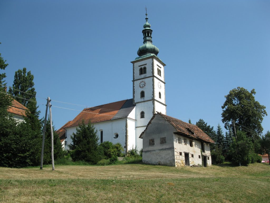 Polenšak, Slovenia